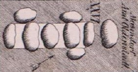 Megalithic tomb near Masendorf, Sprockhoff-No. 779